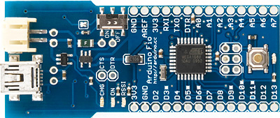 The Arduino Fio is a microcontroller board based on the ATmega328P. It has connections for a Lithium Polymer battery and includes a charge circuit over USB. The Arduino Fio is intended for wireless applications.